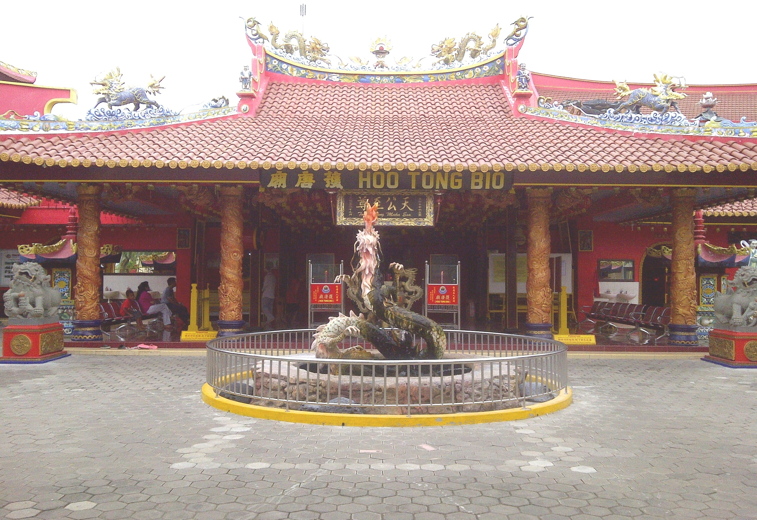 Hoo Tong Bio temple, Banyuwangi, Indonesia